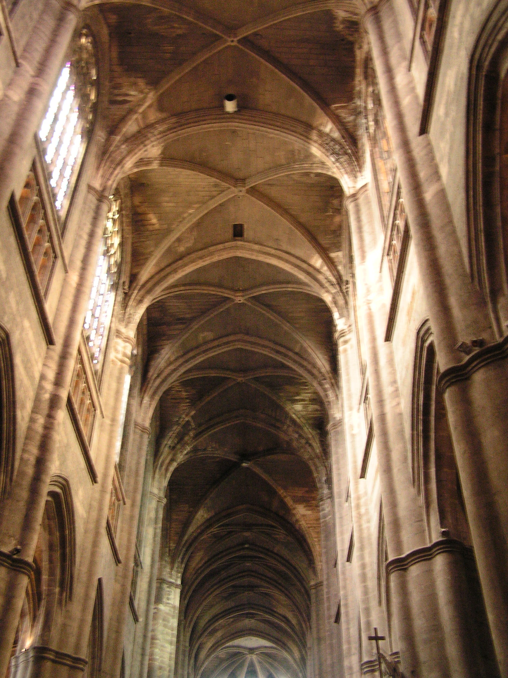 The Rodez Cathedral in Rodez (France)